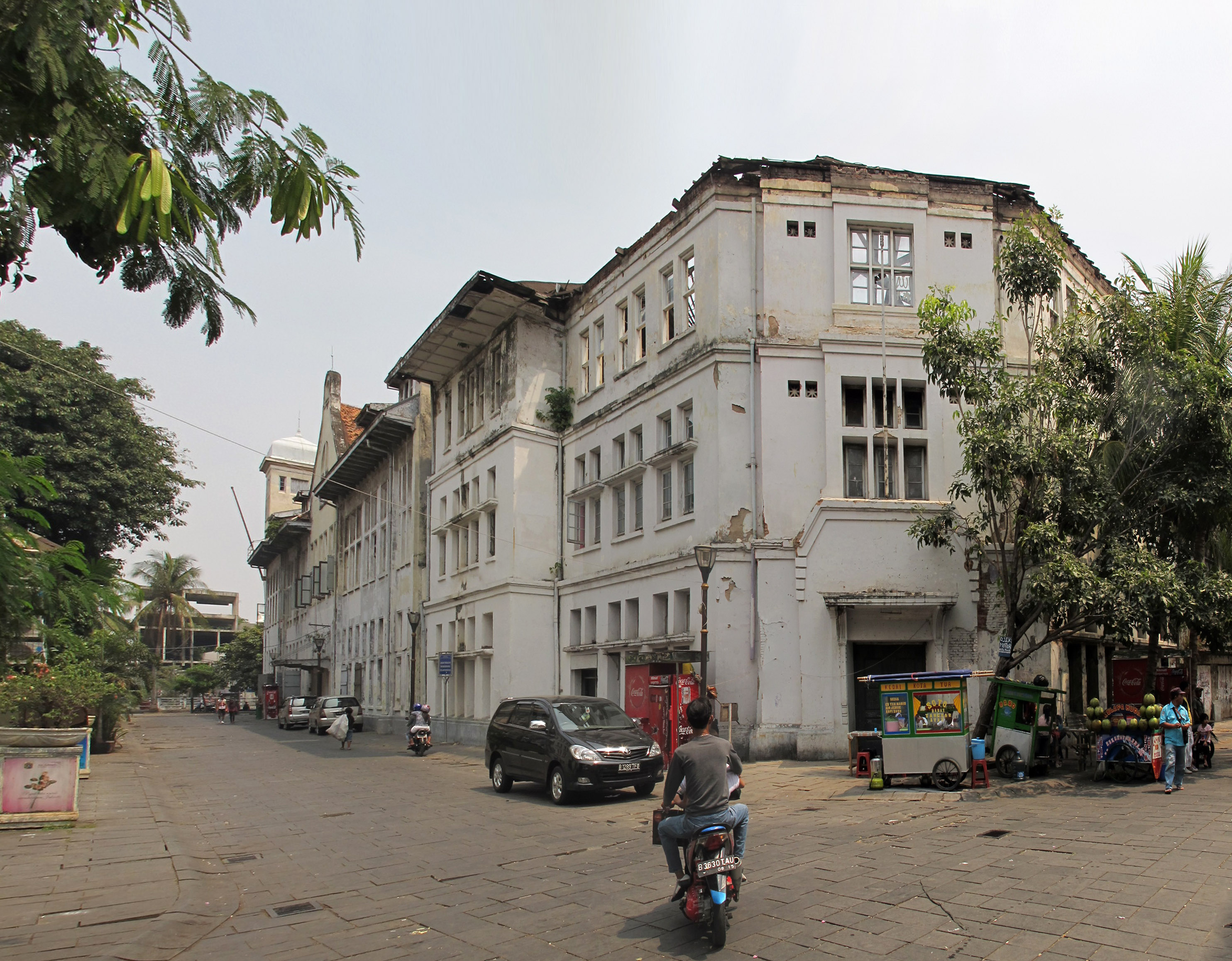 South-East facade of Cipta Niaga Building (Jakarta, Indonesia). This deteriorating building is currently used for various contemporary art exhibitions and events. No well-planned restoration is visible as of August 2015.--Rochelimit (talk) 01:13, 16 August 2015 (UTC)